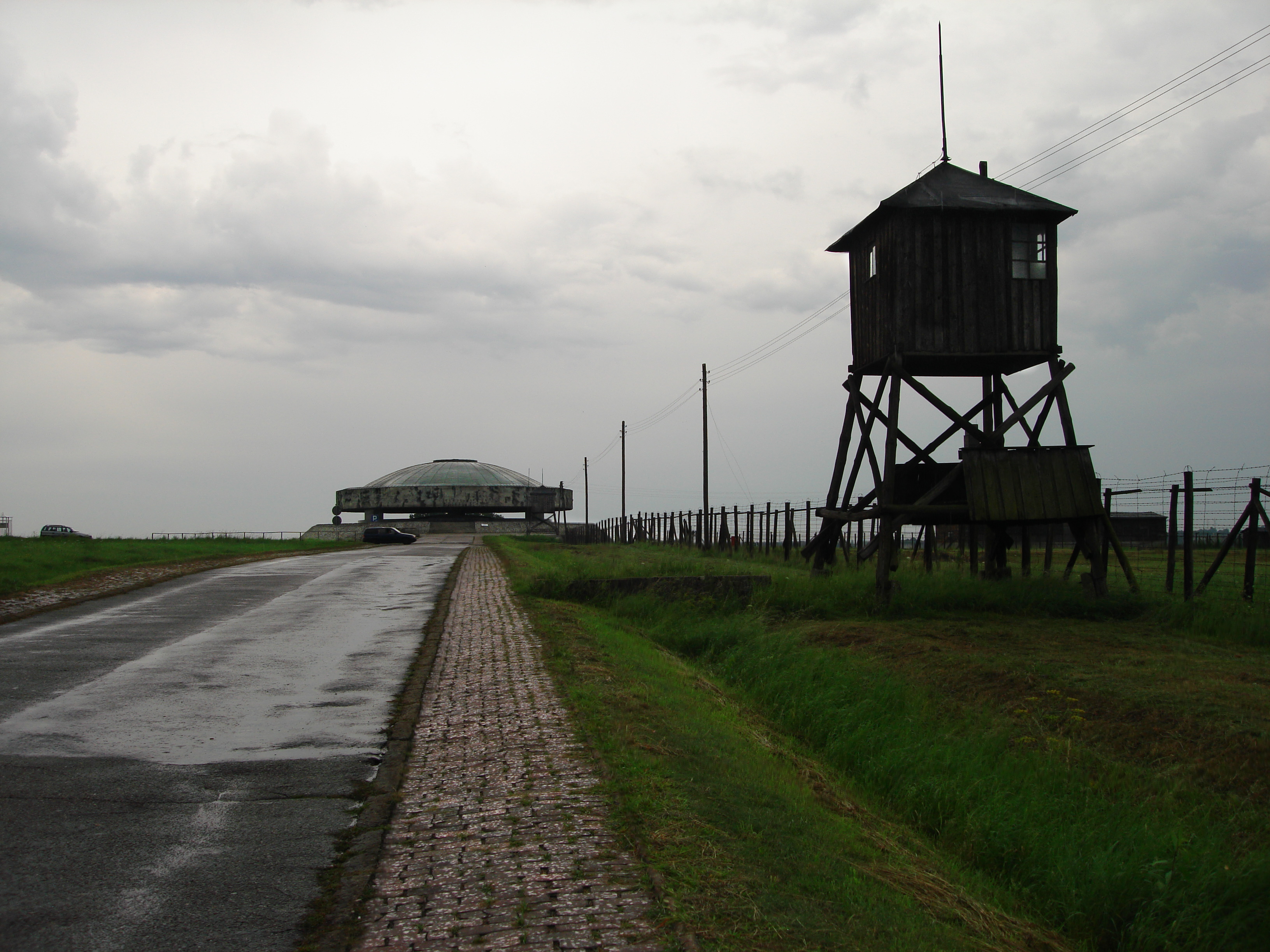 German concentration camp Majdanek